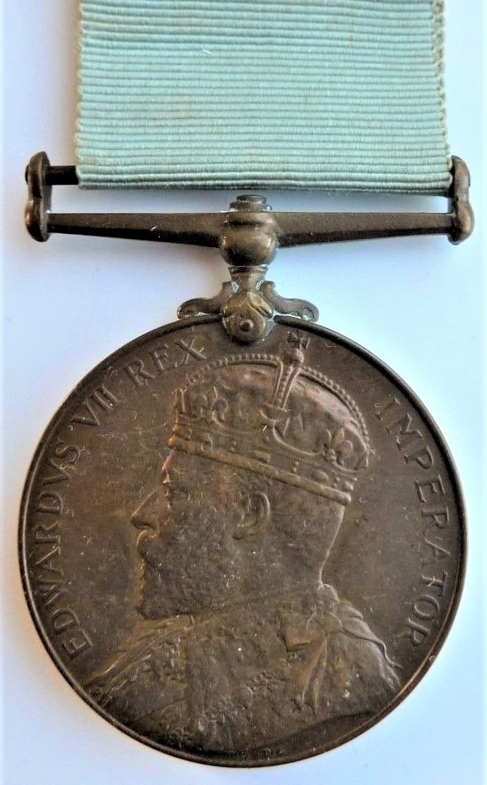 King Edward VII's Visit to Ireland Medal, 1903, obverse. British commemorative medal.